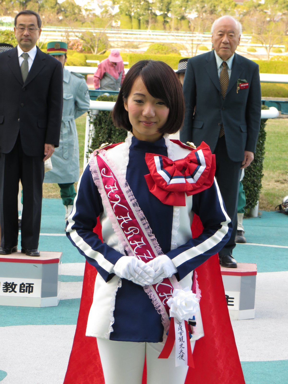 Sightseeing ambassador of Takarazuka, Hyōgo. Wearing a costume reflecting the image of the Osamu Tezuka "Princess Knight". Taken at Hanshin Racecourse.